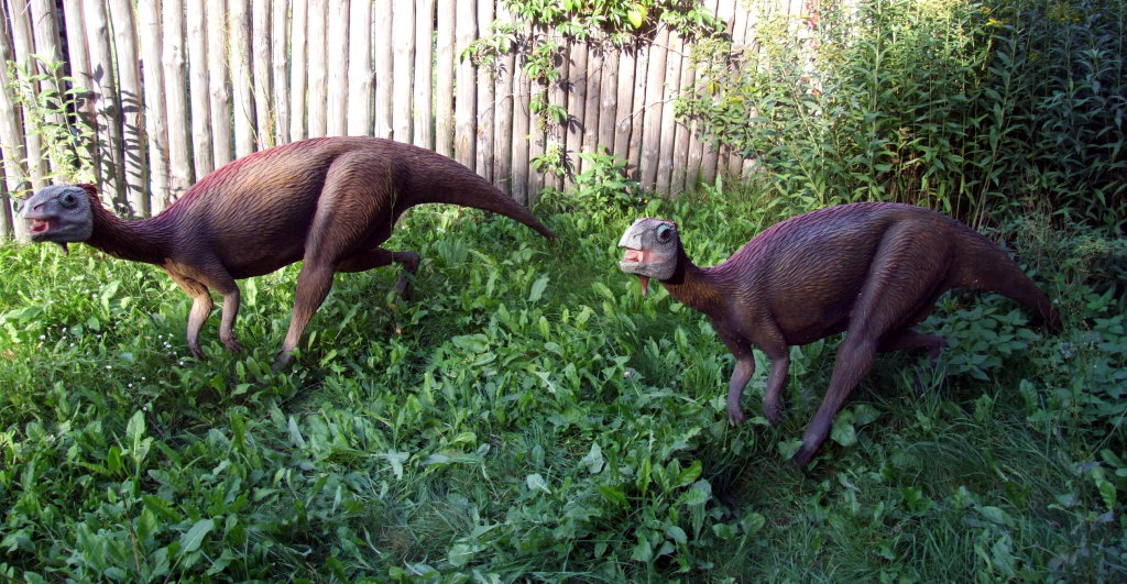 Model of dryosaurus altus in Bałtów Jurassic Park, Bałtów, Poland